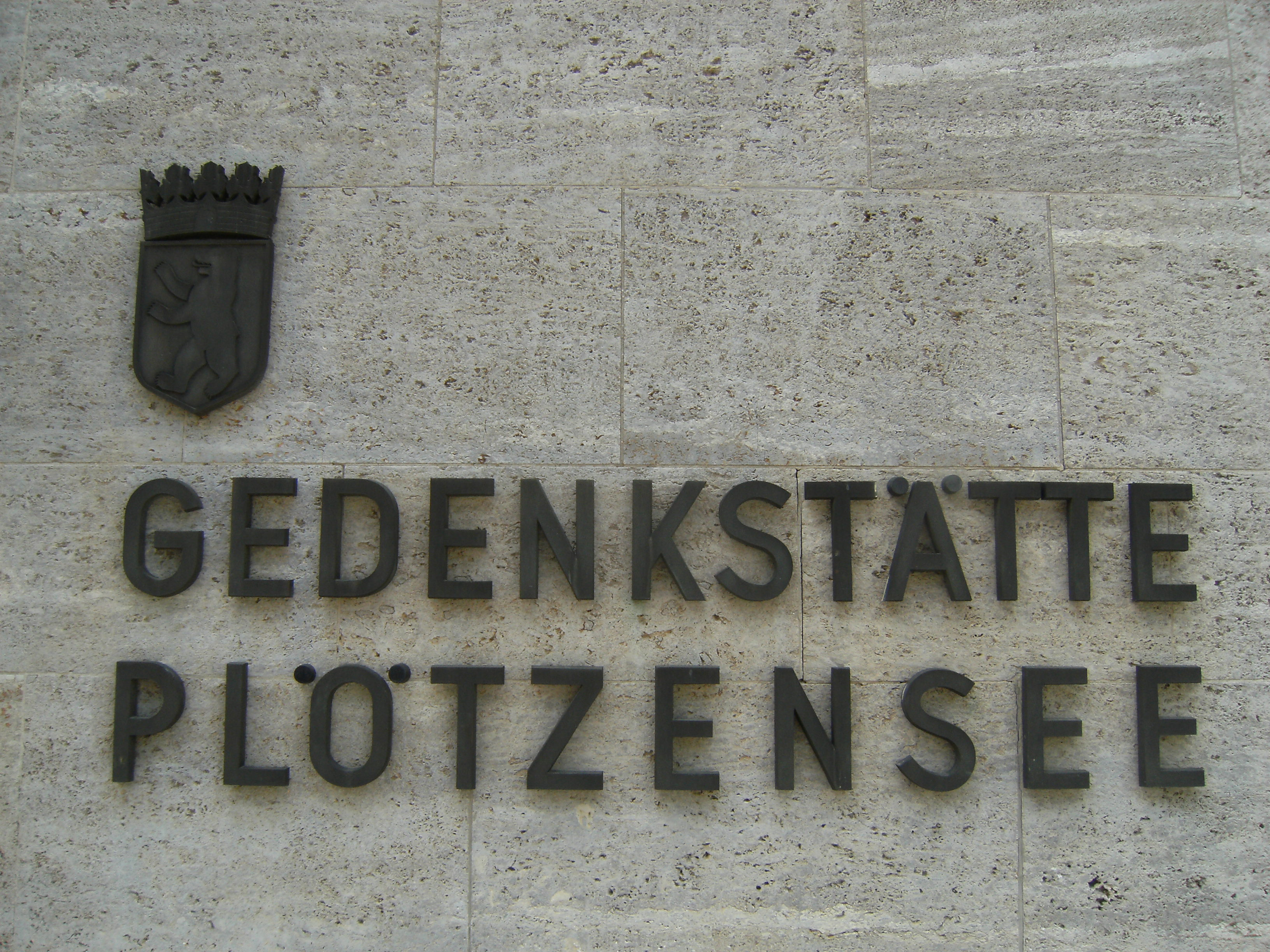 Plötzensee Prison, inscription on Portal